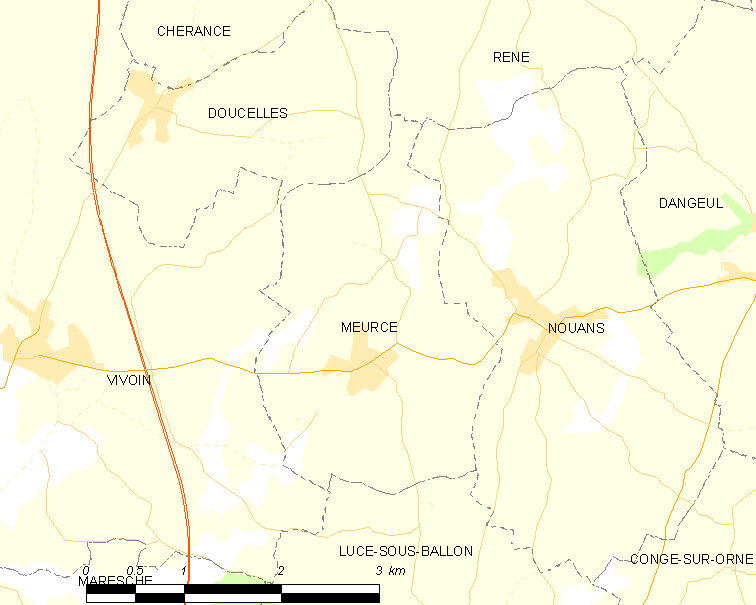 Map of French municipality